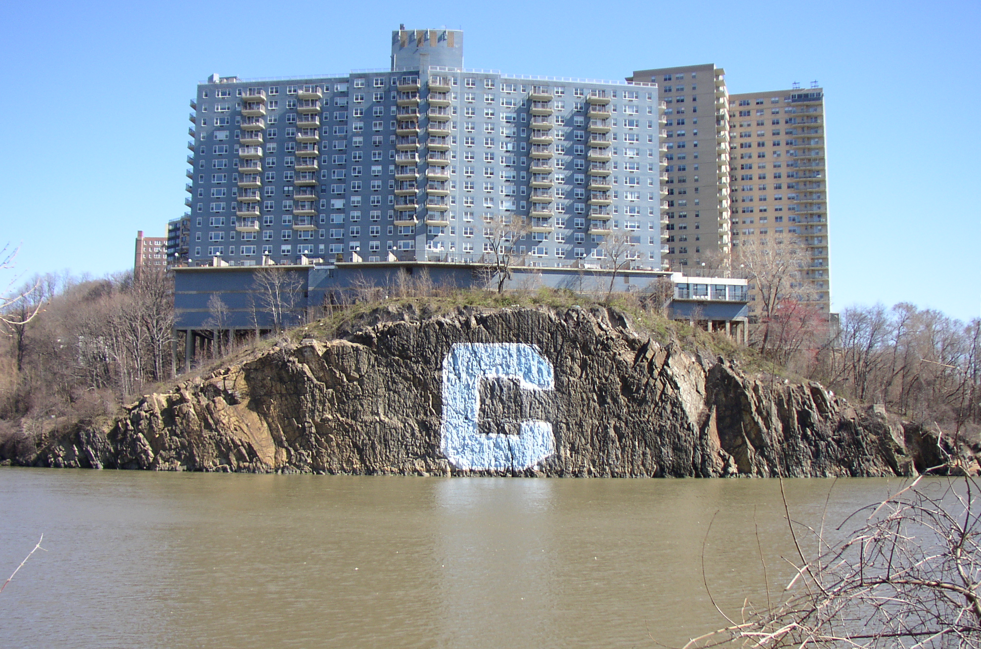 Spuyten Duyvil Creek from Inwood Hill Park, to the buildings in Johnson Av in Spuyten Duyvil